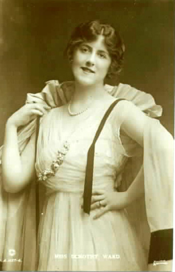 Description: Postcard depicting actress Dorothy Ward (1890-1987) Date: circa 1913 Publisher: Rotary Photographic Co. (floruit 1899-1910s) [1] (Accessed 9 December 2008)